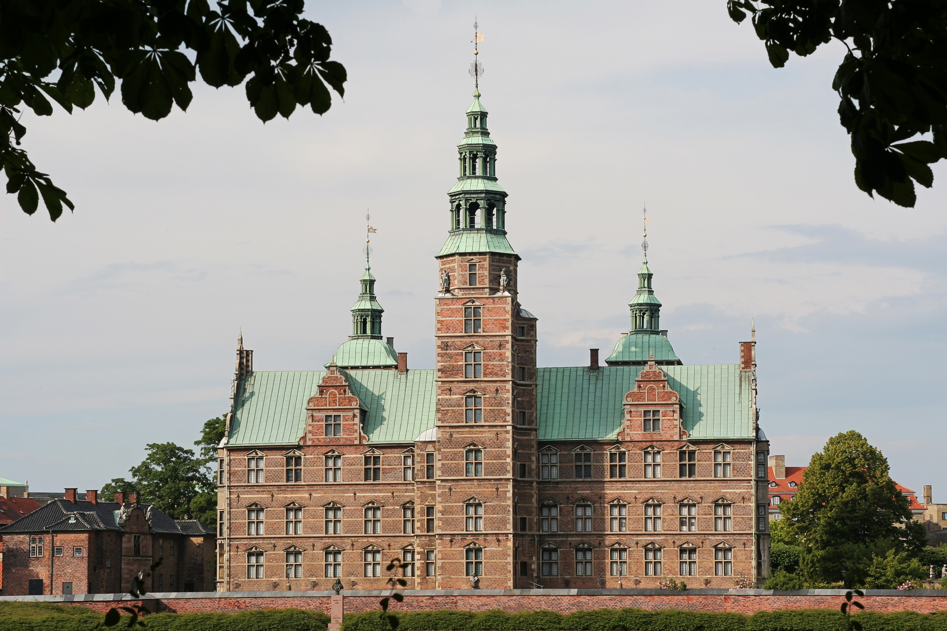 Rosenborg castle in Denmark